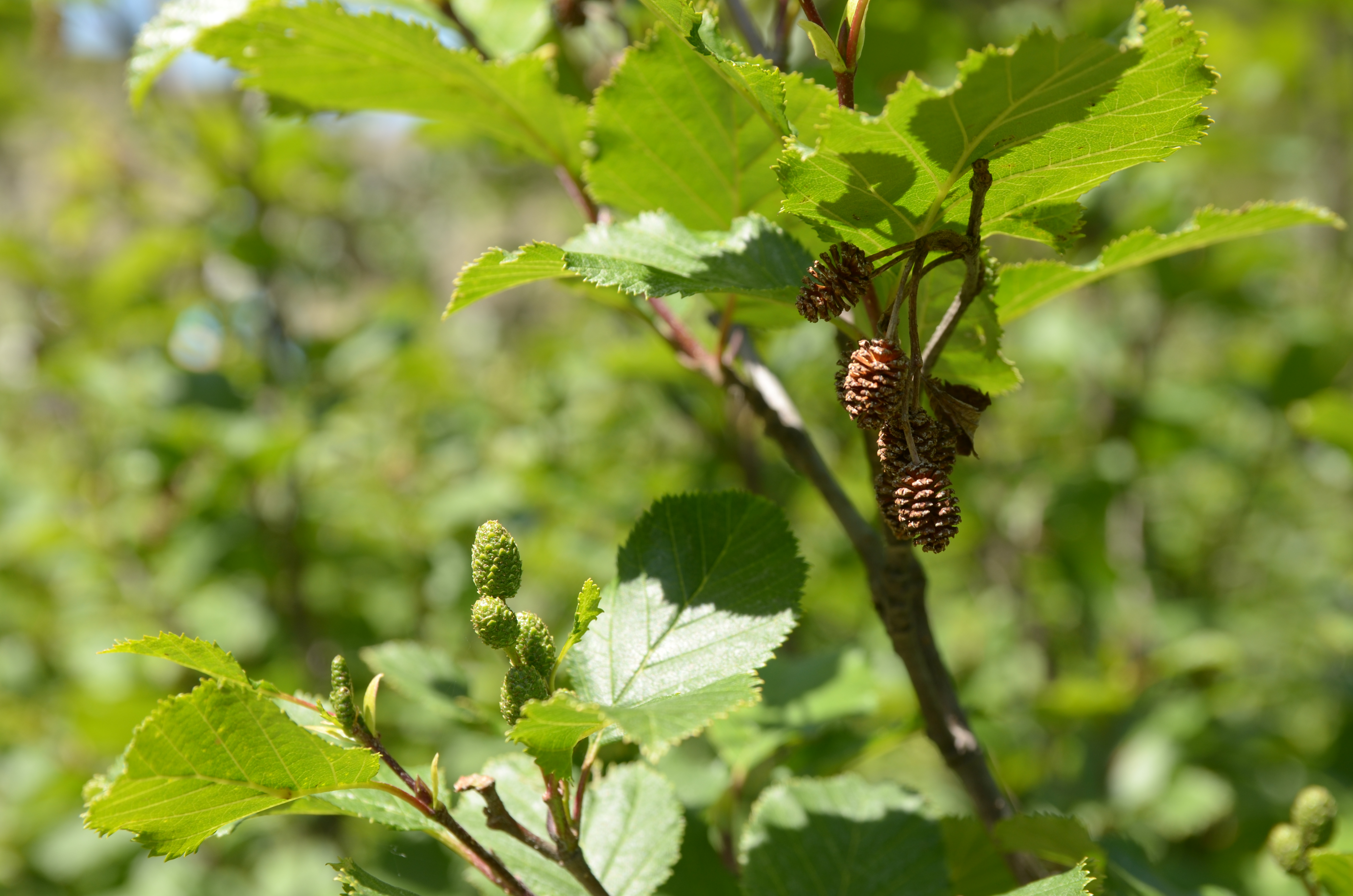 Fruits of the Alnus viridis from the current and previous year.